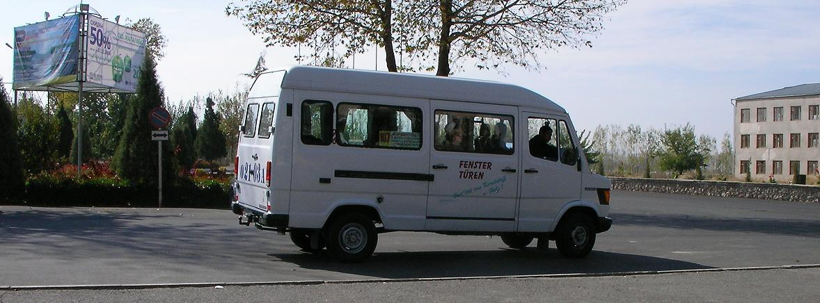 Marshrutka outside Osh airport terminal, Kyrgyzstan. Price was 6 Kyrgyz som as of October, 2006.